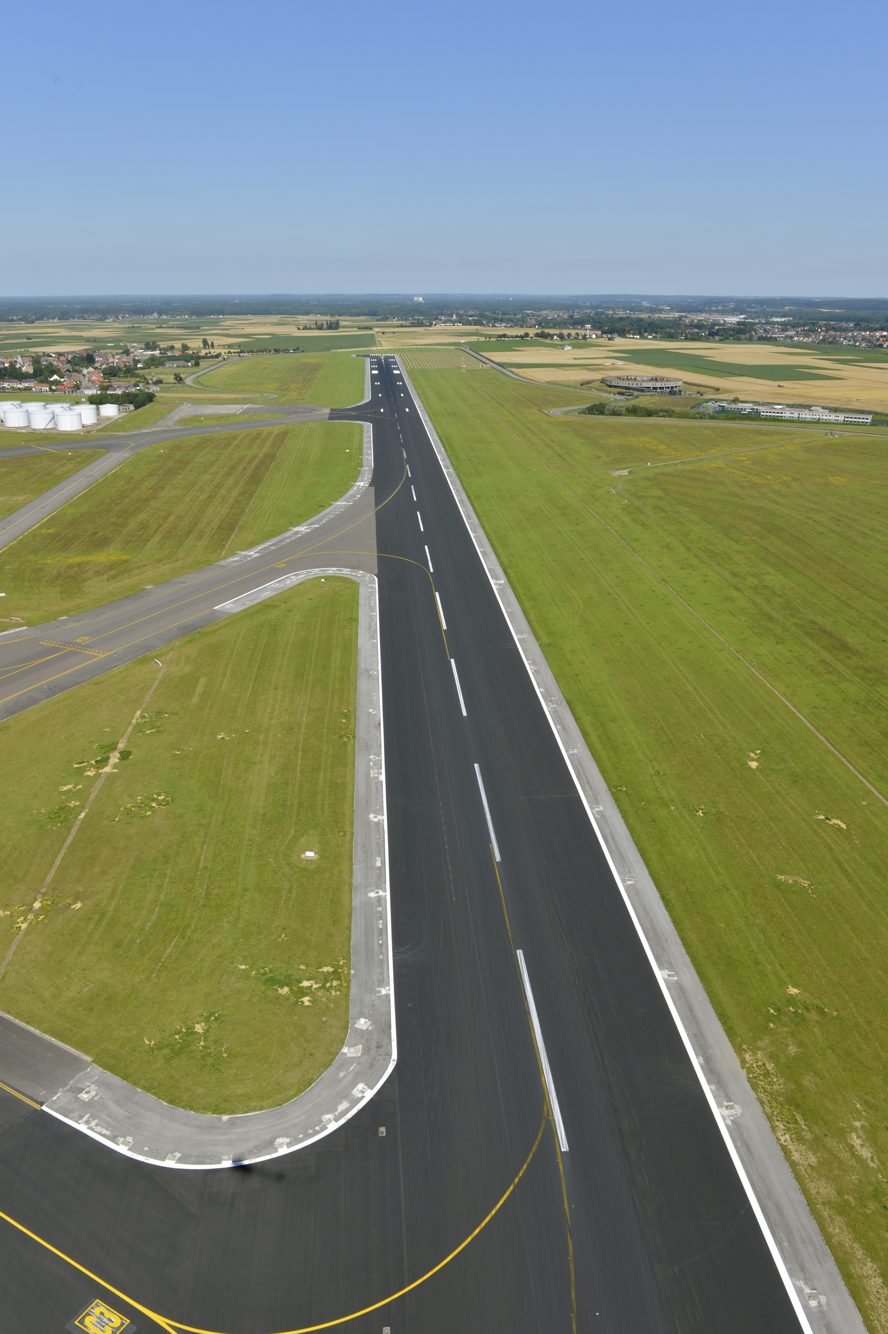 Runways at Brussels Airport